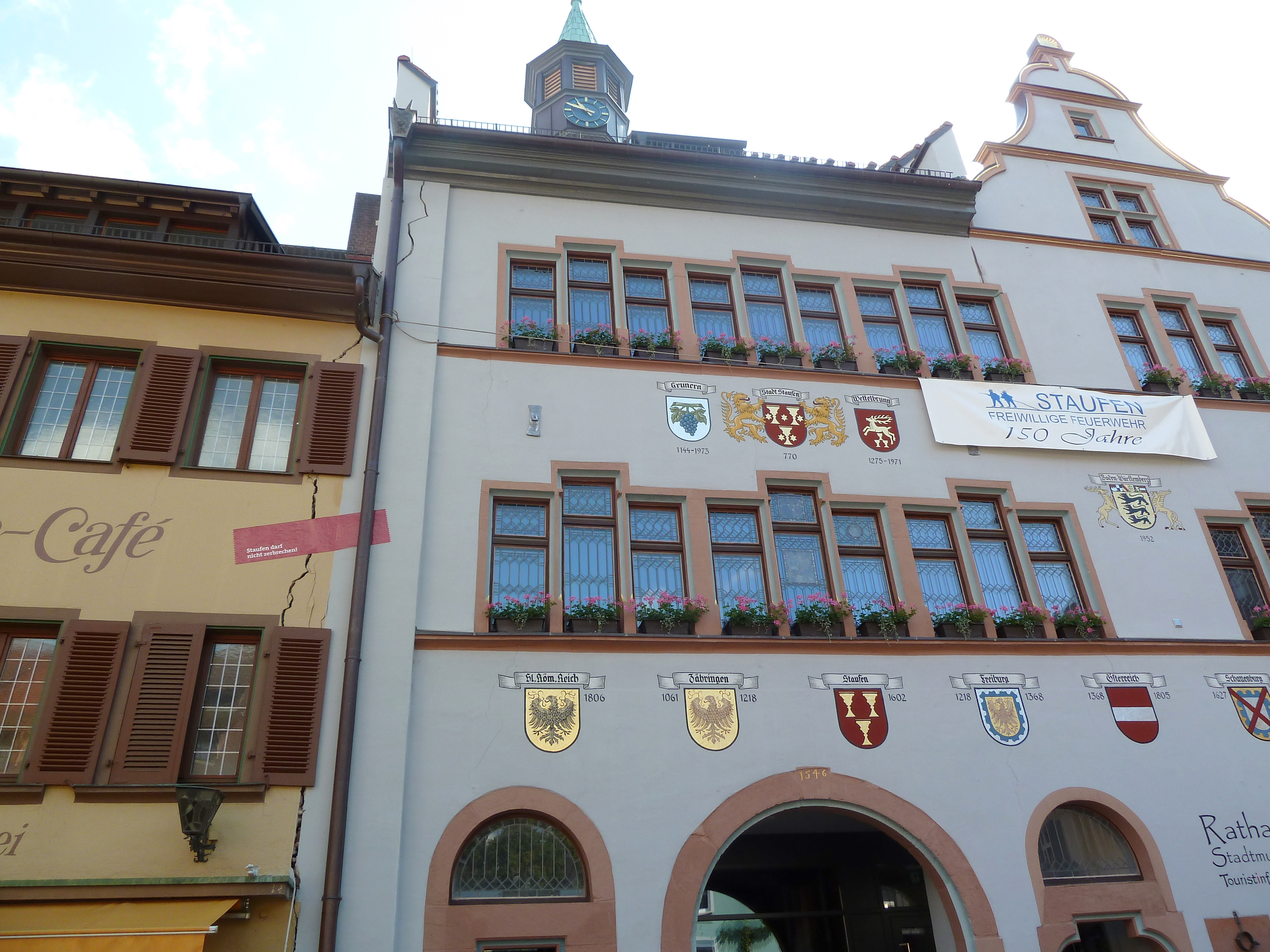 Cracks in the historic city hall at Staufen, Germany possibly due to damage from geothermal drilling